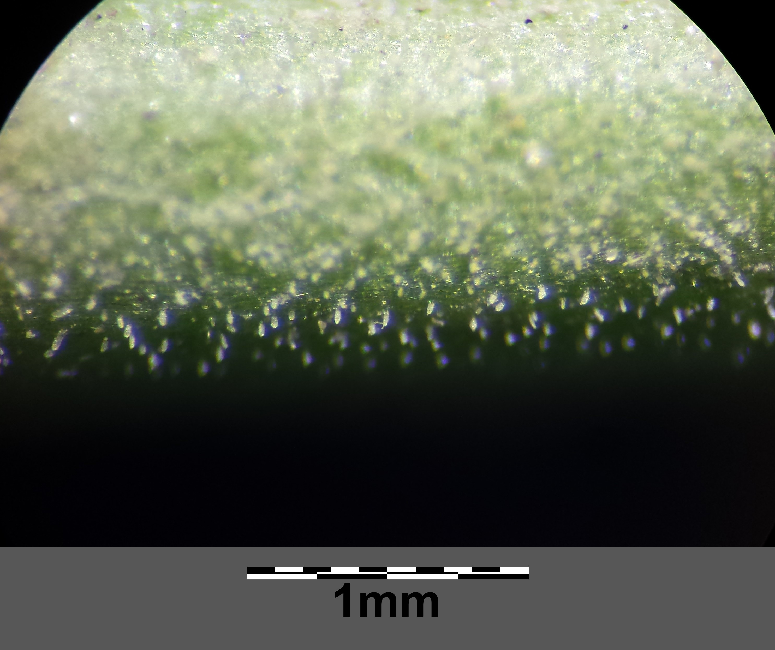 Stem with straight papillae Taxonym: Lepidium densiflorum ss Fischer et al. EfÖLS 2008 ISBN 978-3-85474-187-9 Location: Korneuburg rail station, district Korneuburg, Lower Austria - ca. 170 m a.s.l. Habitat: ruderal area